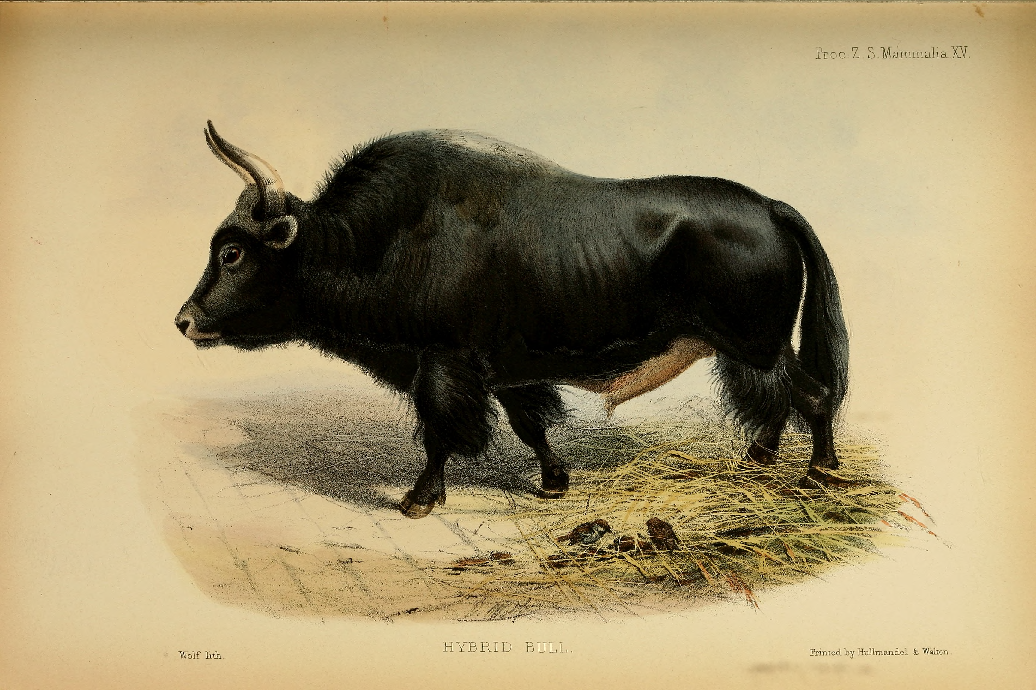 The Dzo received by London Zoo in 1849